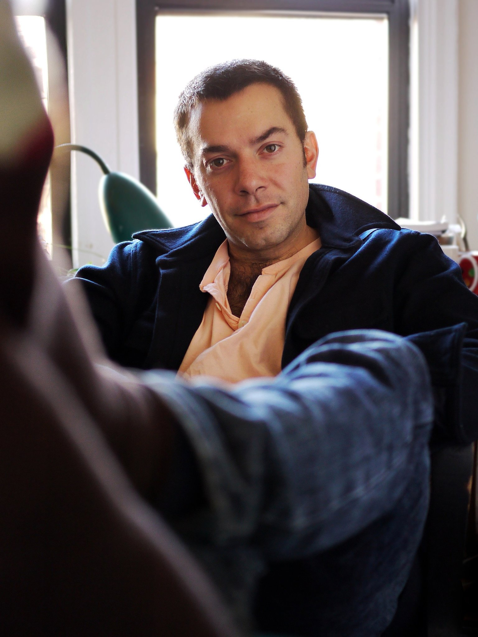 Geoffrey Gray New York Times bestselling author, documentary producer and founder of True.Ink